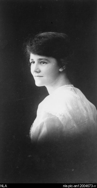 Portrait of author Flora Eldershaw (1897-1956)